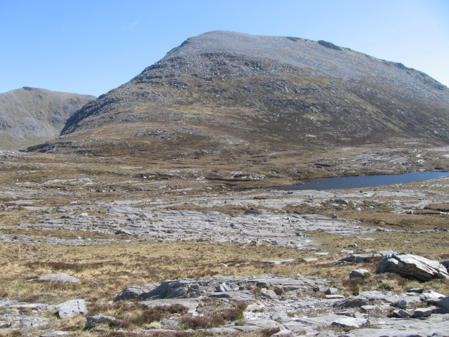 Plateau below Meallan Liath Coire Mhic Dhughaill